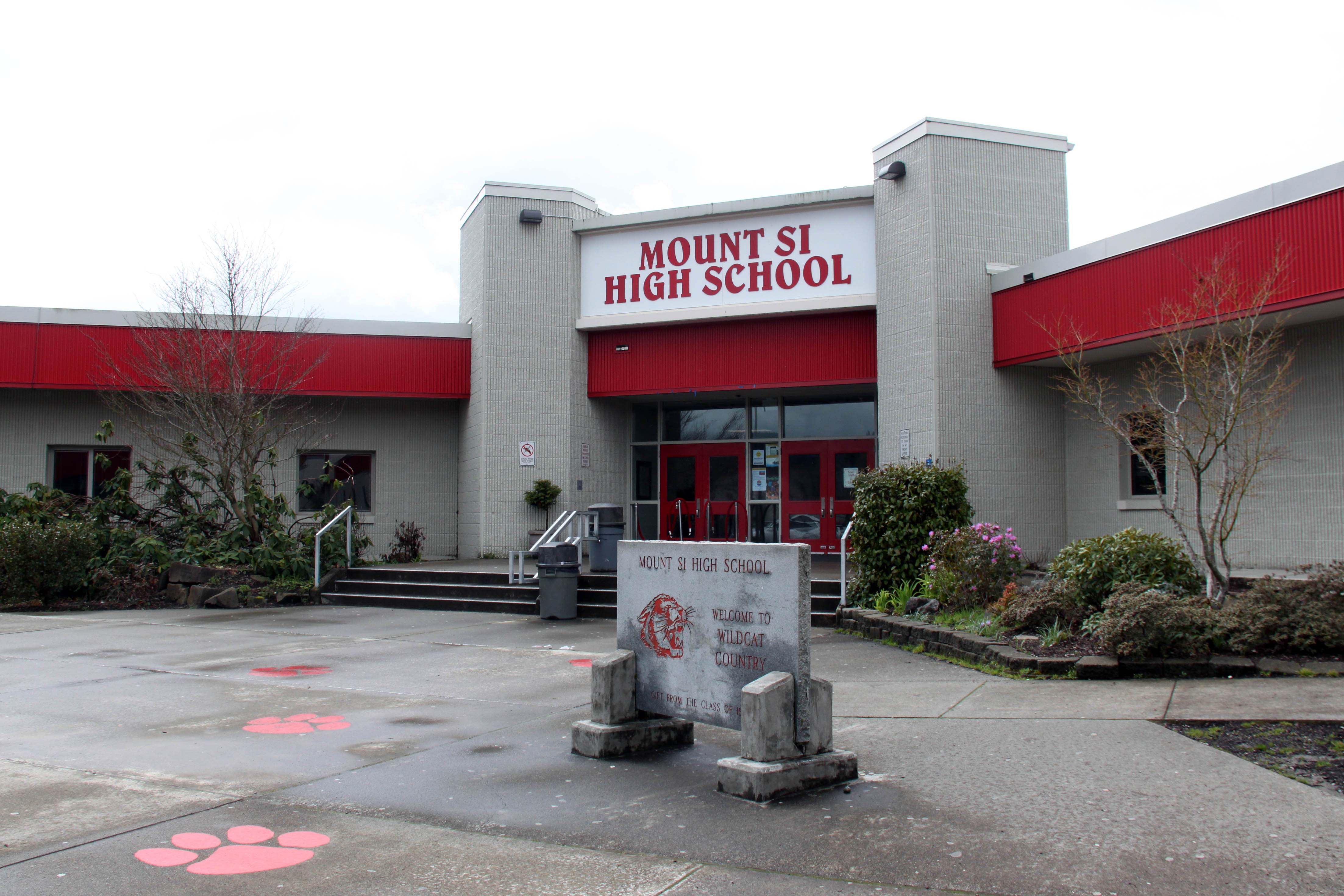 Front entrance to Mount Si High School in Snoqualmie, Washington.